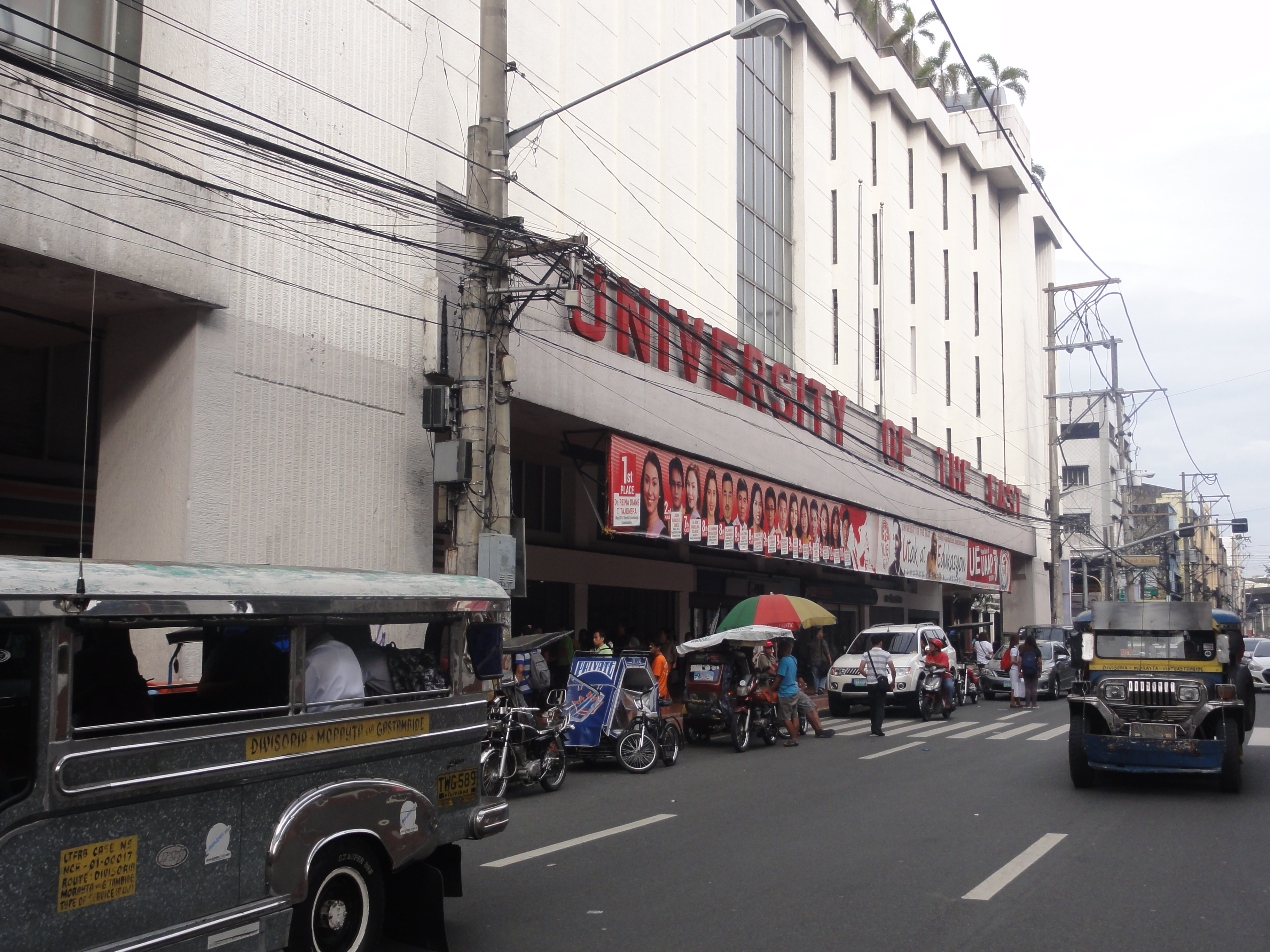 View of one of the main buildings of University of the East (UE) along C.M. Recto Avenue, Sampaloc, Manila